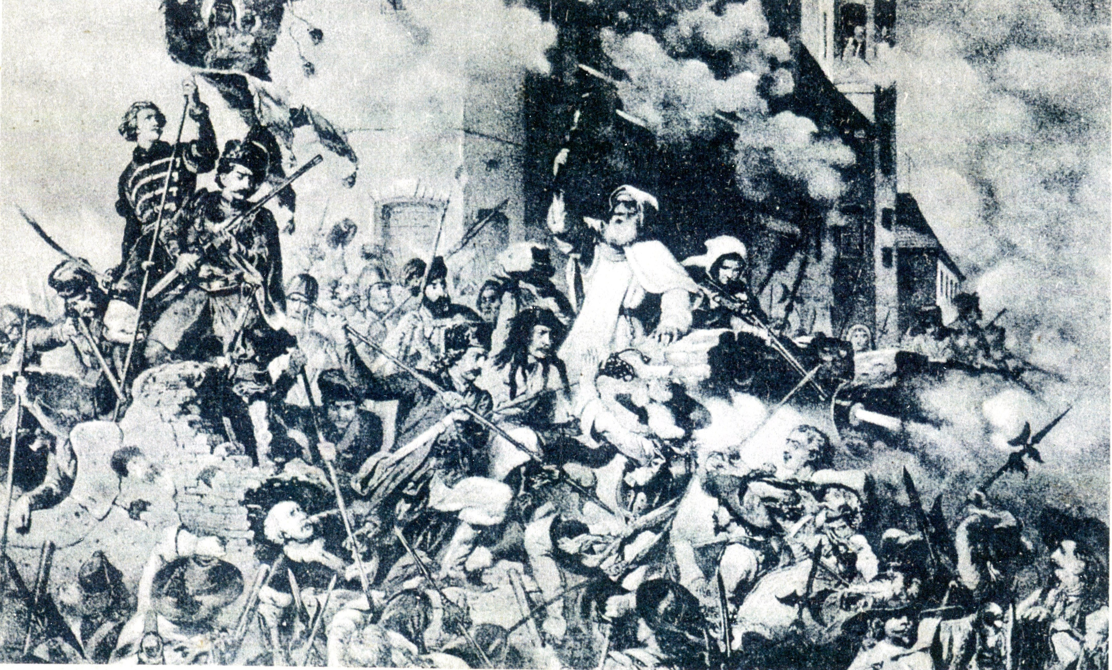 Defence of Jasna Góra monastery, 1655 (monochrome version of the painting by January Suchodolski, 1845)